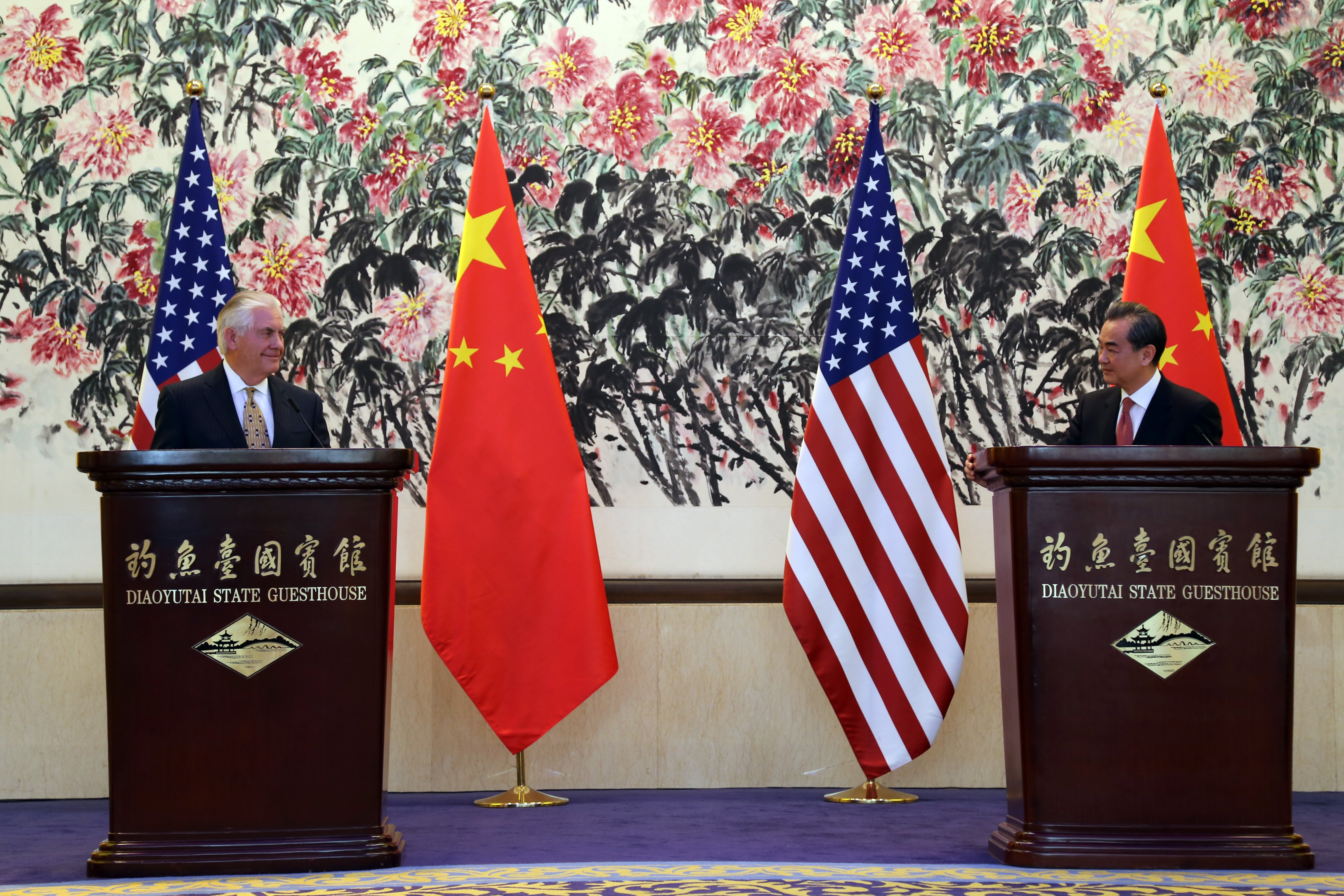 U.S. Secretary of State Rex Tillerson and Foreign Minister Wang Yi address media during a joint press conference in Beijing, China, on March 18, 2017. [State Department photo/ Public Domain]